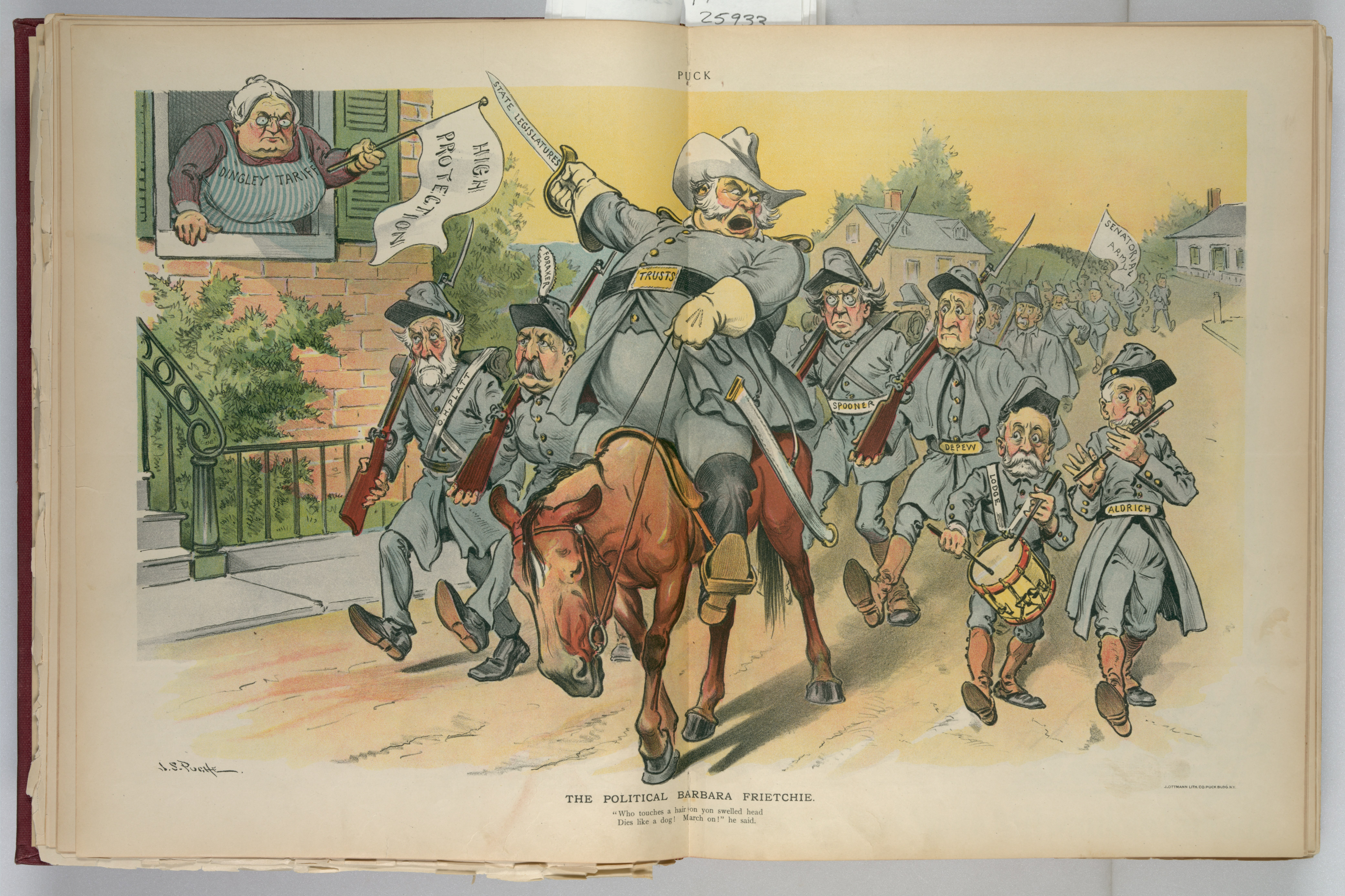 Title: The political Barbara Frietchie / J.S. Pughe. Caption from item: "Who touches a hair on yon swelled head / Dies like a dog! March on!" he said. Note: Illustration shows a troop of senators as Confederate soldiers, led by an officer on horseback labeled "Trusts", marching down a street past the house with "Barbara Fritchie" labeled "Dingley Tariff" leaning out the window, waving a flag labeled "High Protection". Abstract/medium: 1 photomechanical print : offset, color.